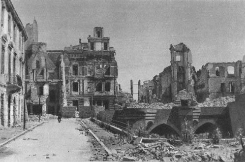 Remains or barbican and nearby buildings; war damage - 1947. Source: [1]